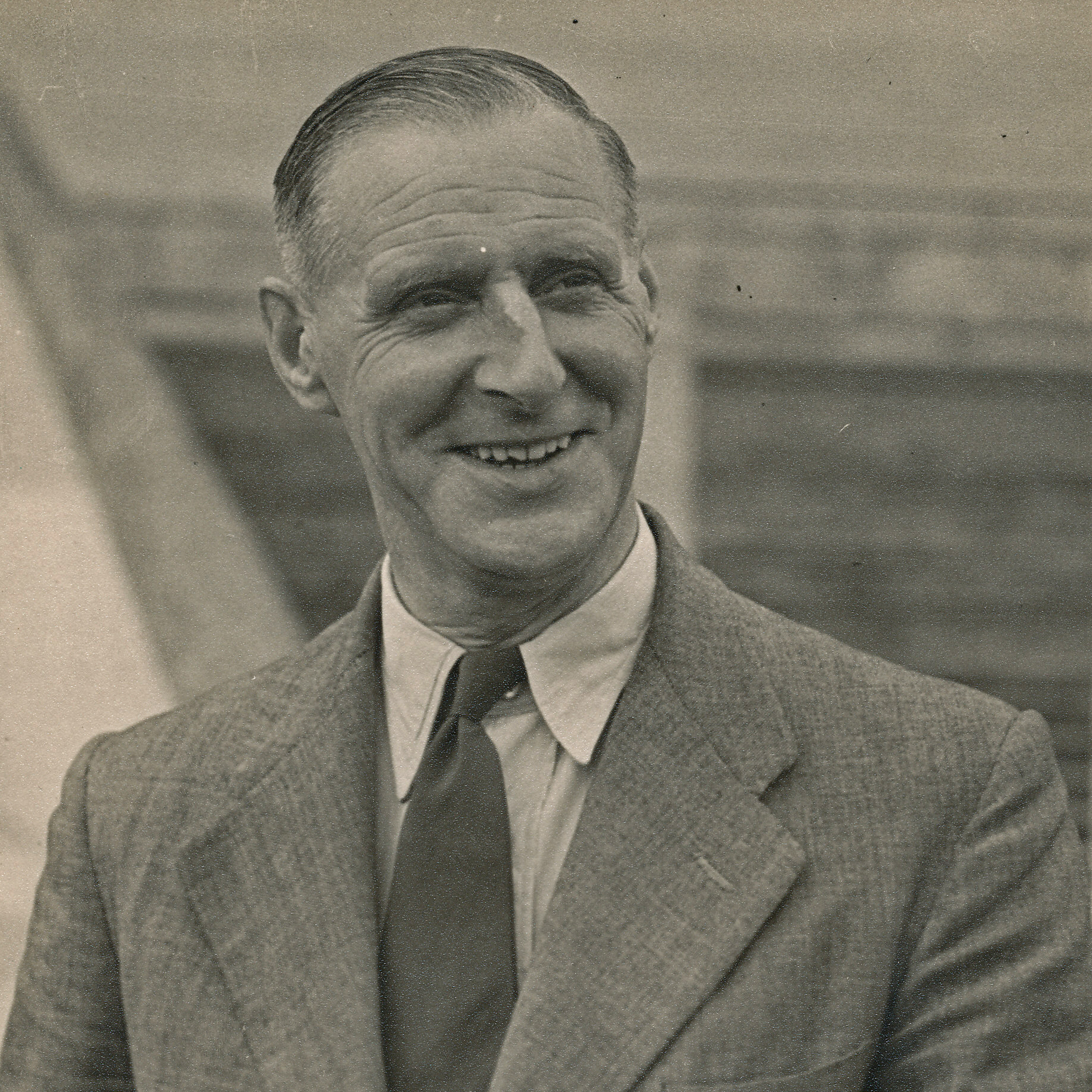 Cyril Spiers - Football Player and Manager